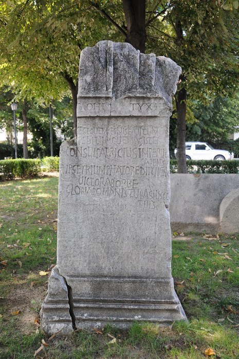 An inscrition dedicated to Basiliscus, Roman Emperor